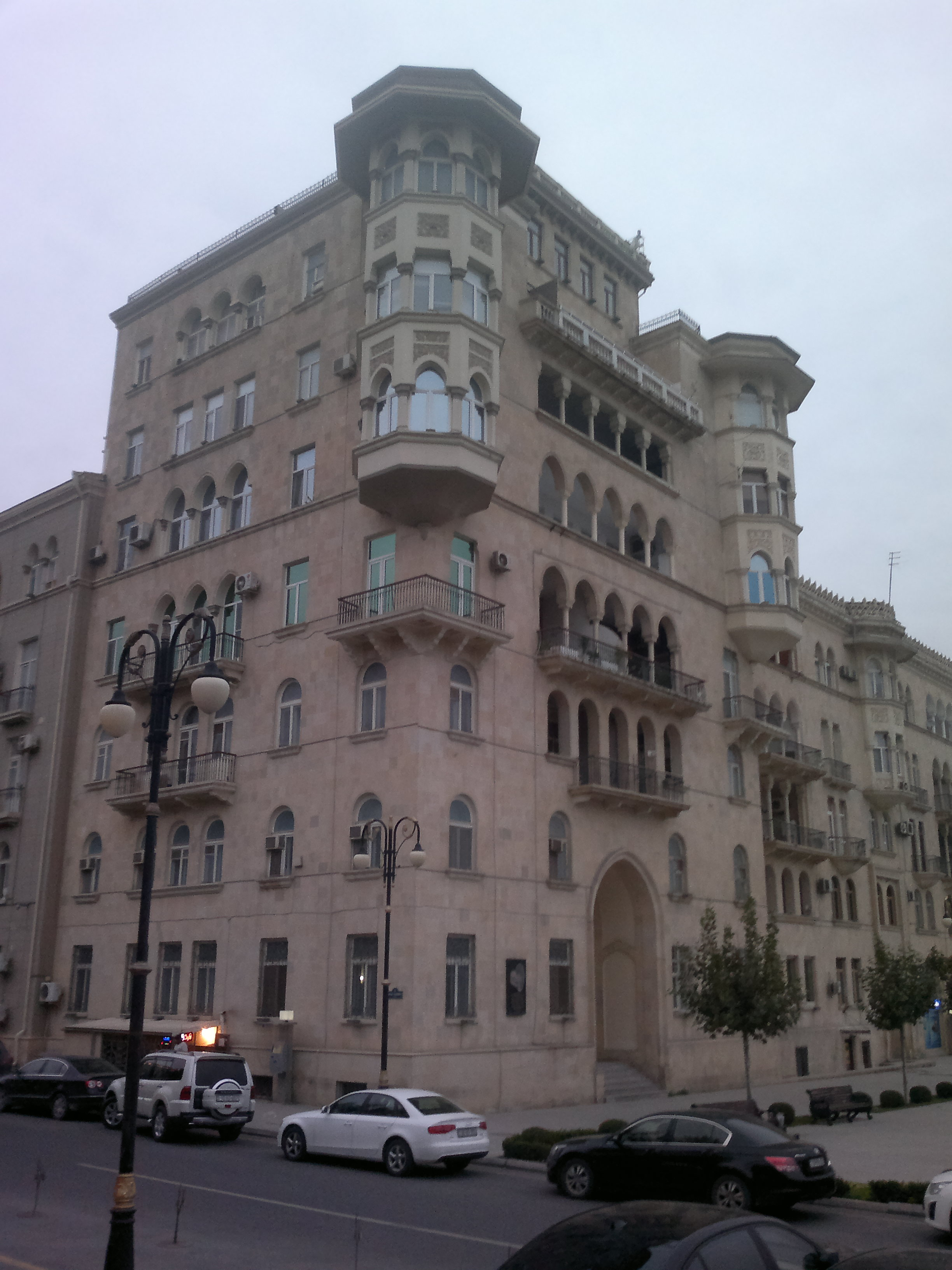 Building on Neftchiler Avenue